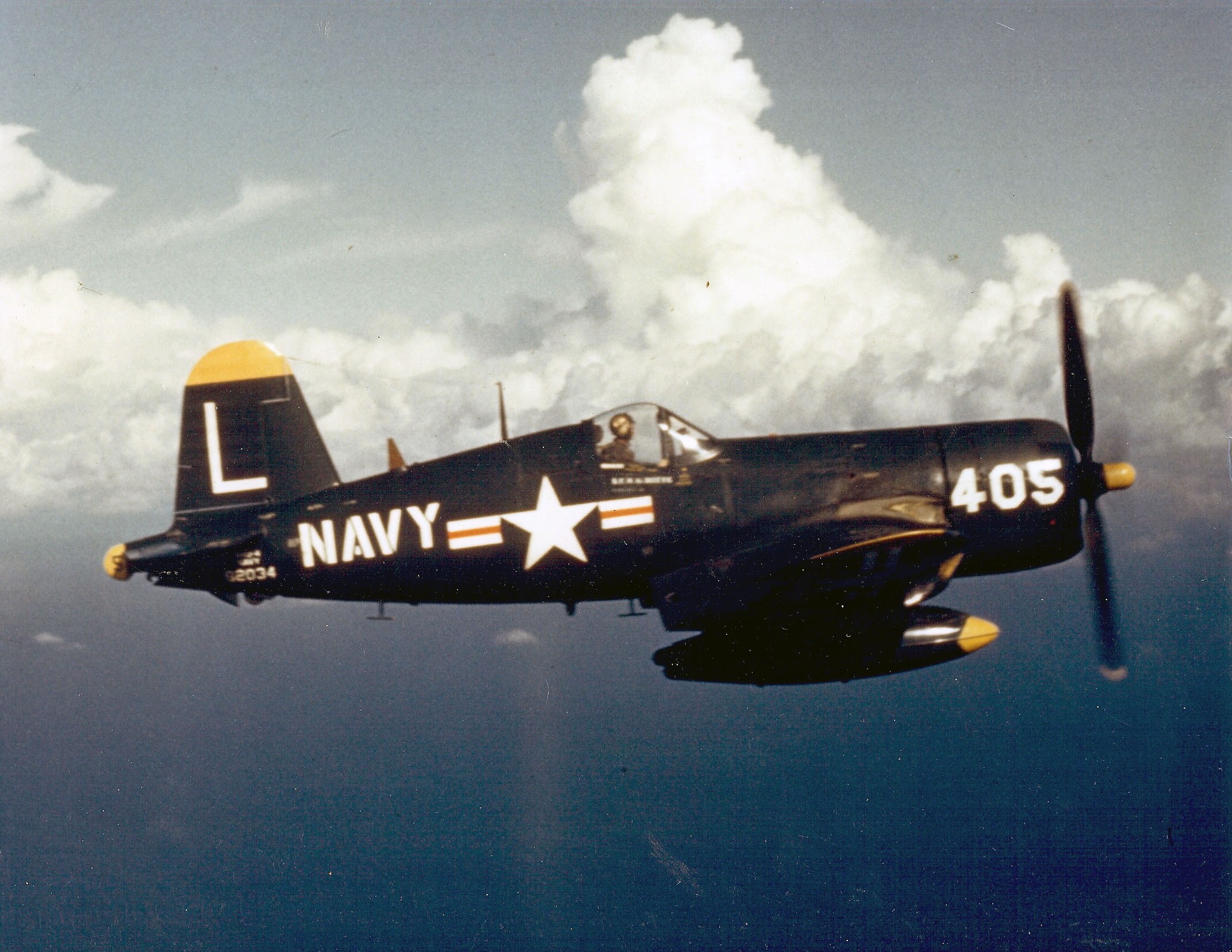 A U.S. Navy Vought F4U-4 Corsair (BuNo 82034) of Fighter Squadron 74 (VF-74) "Be-Devilers" in flight over the Mediterranean in October of 1953. VF-74 was assigned to Carrier Air Group 7 (CVG-7) aboard the aircraft carrier USS Bennington (CVA-20) for a deployment to the Mediterranean Sea and the North Atlantic from 16 September 1953 to 21 February 1954.